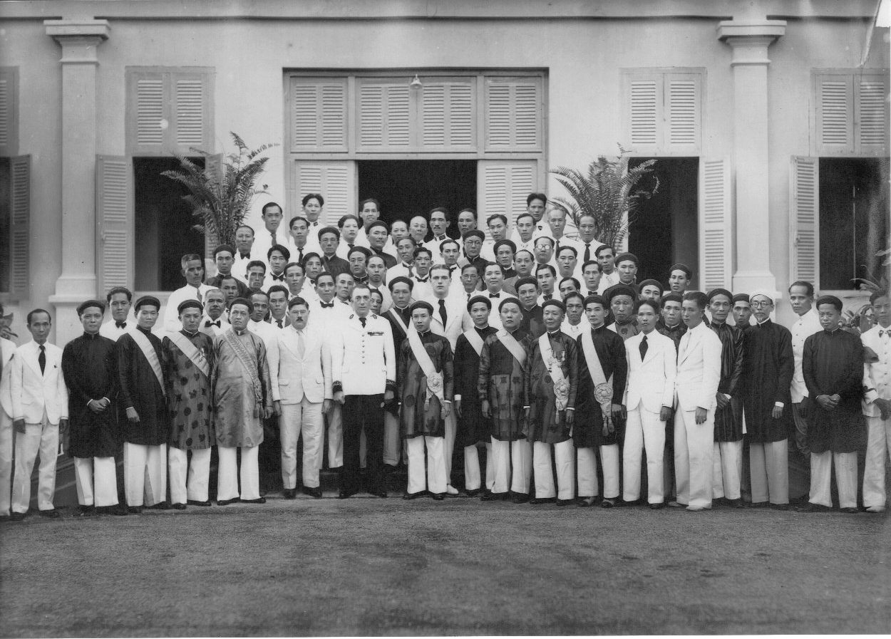 René Schneyder, civil administrator of Indochina